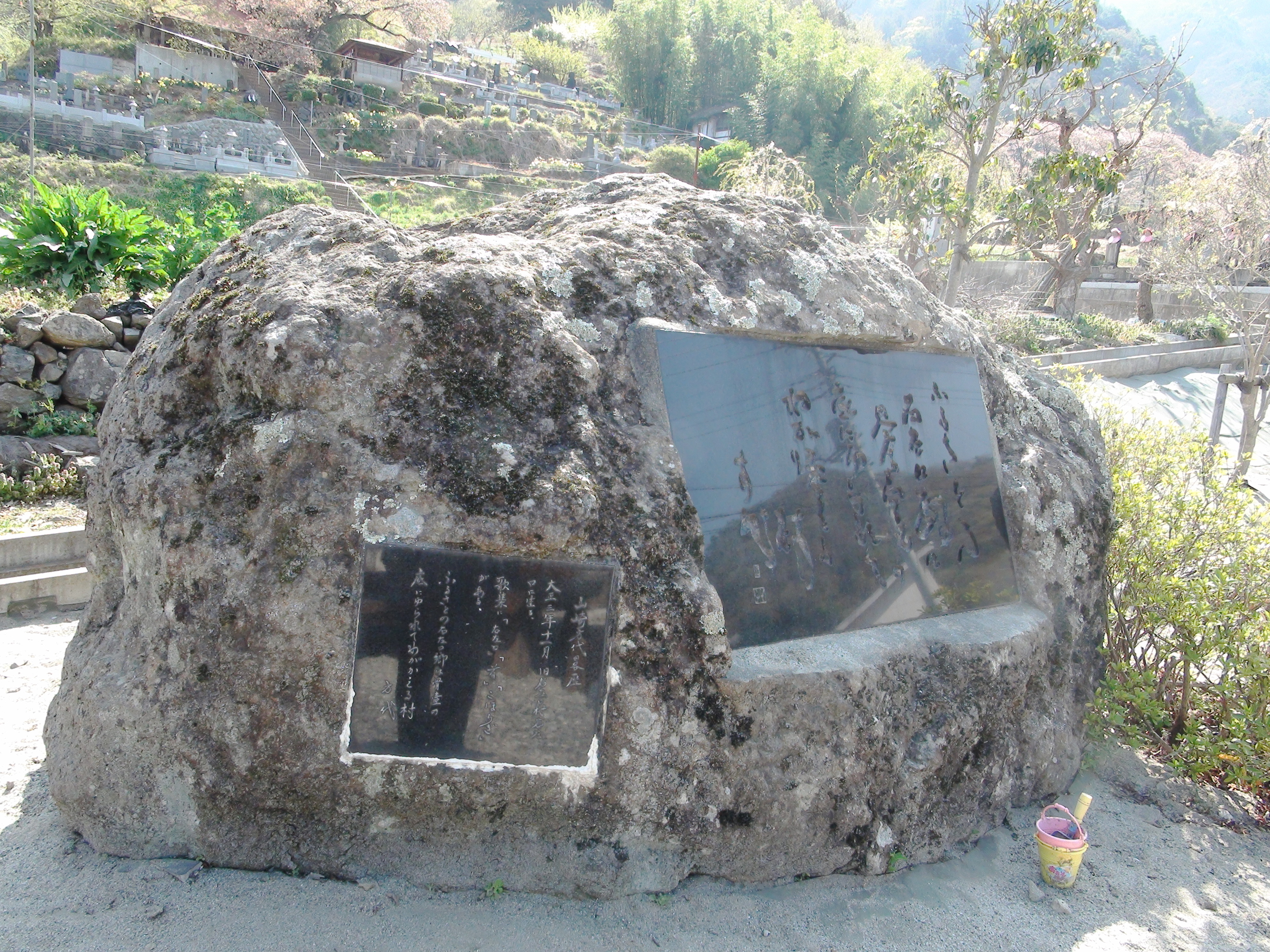 Trace of the birthplace of the Yamazaki-hodai poet